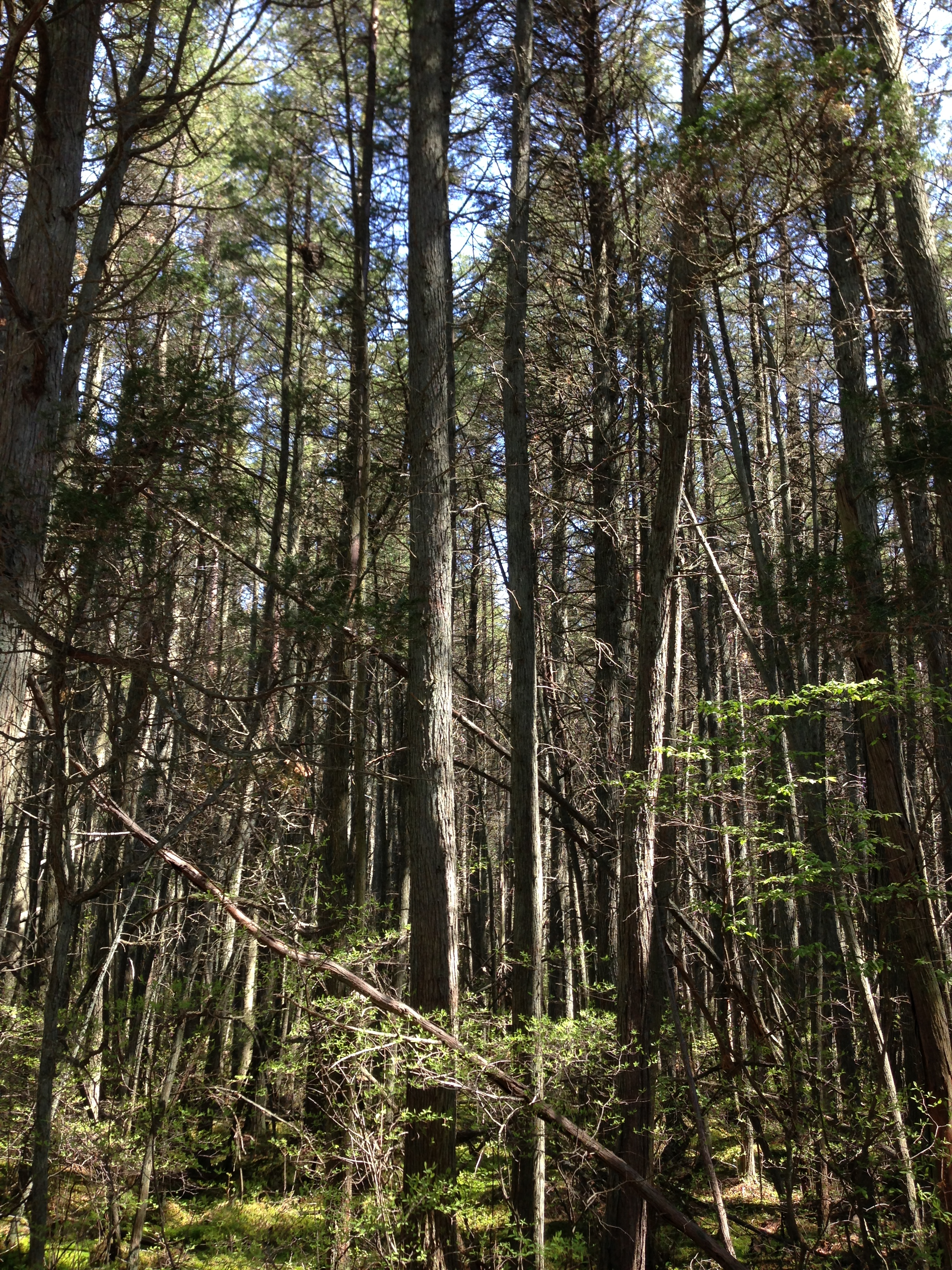 A dense Atlantic White Cedar swamp along the Mount Misery Trail in Brendan T Byrne State Forest, New Jersey. These habitats are characterized primarily by dense stands of Chamaecyparis thyoides, which grow tall and narrow in close proximity to one another.